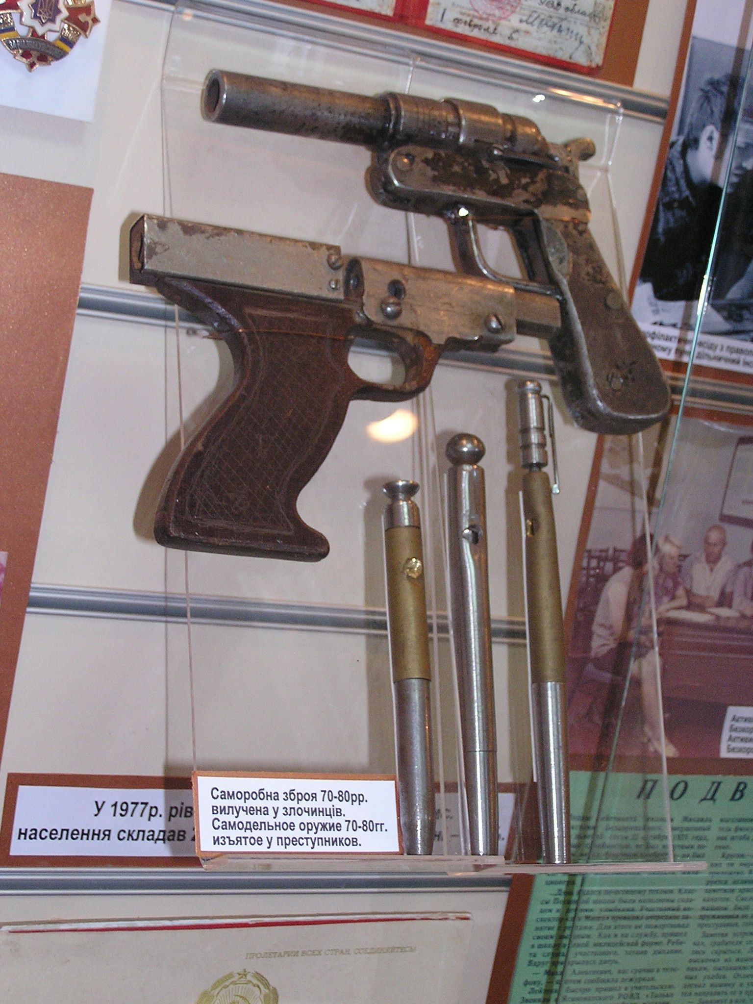 Museum of the History of Donetsk militsiya